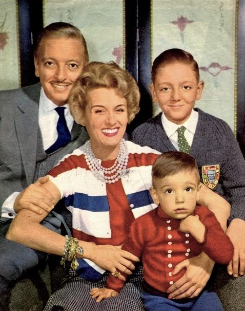 José Cibrián, Ana María Campoy con sus hijos Roberto y Pepe Cibrián Campoy en 1960